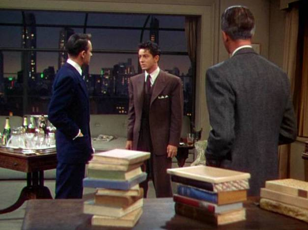 Cropped screenshot of James Stewart from the trailer for the film Rope